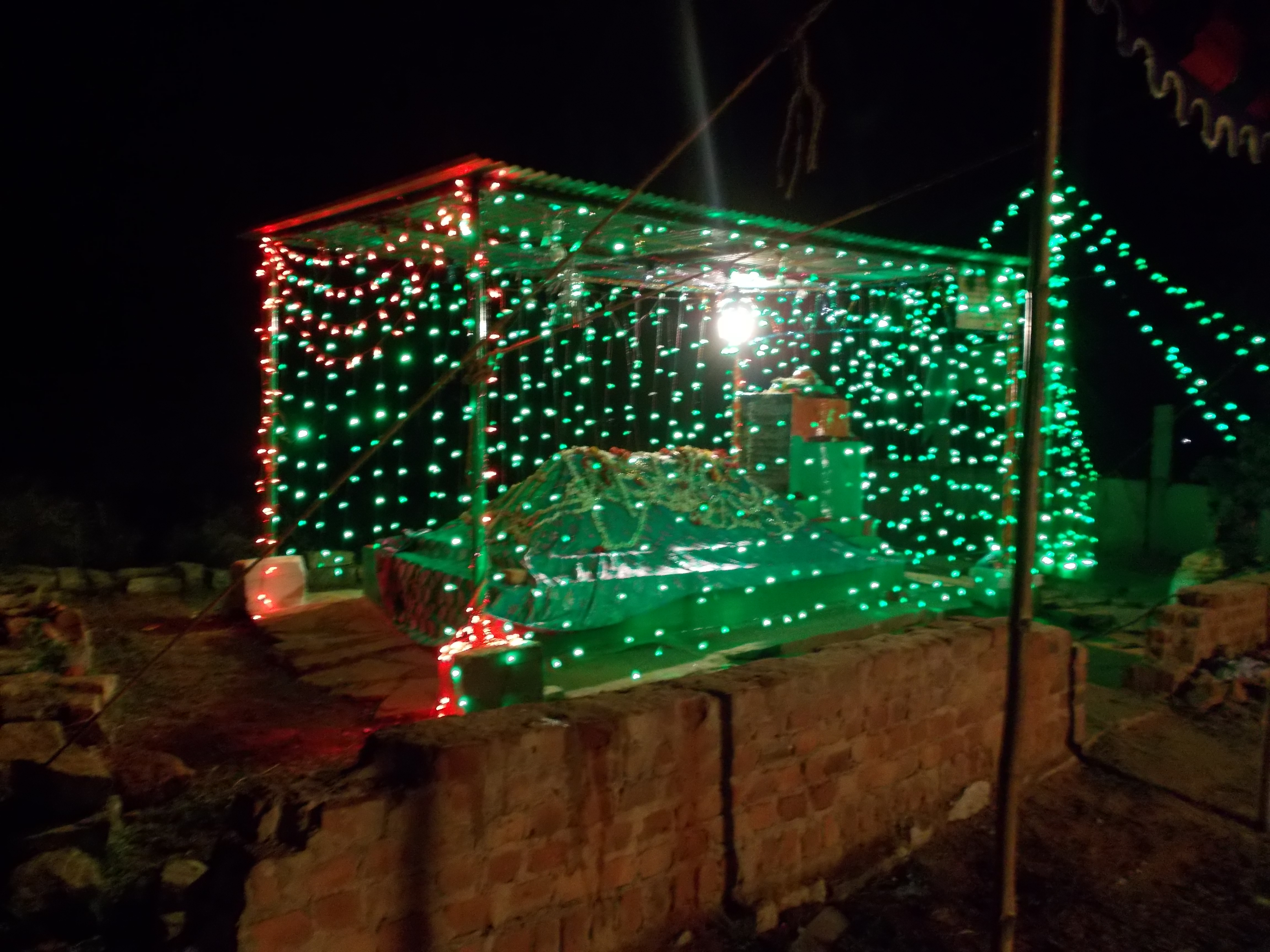 Dargha Hazrath Khawaja Peer Syed Gayazulla Shah